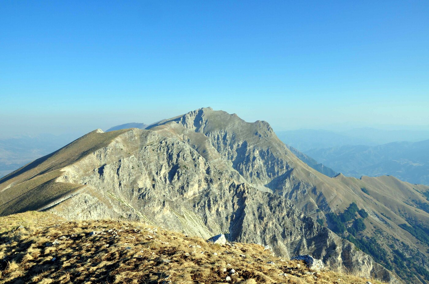 Mount NemërçkëShqip: Mali Nemërçkë